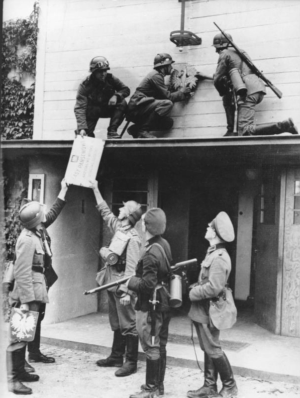 After the German invasion of Poland German soldiers are removing Polish signs at the former border between Zoppot (today Sopot) and Gdingen (today Gdynia). The sign reads Lasy Państwowe, Nadleśnictwo Wysoka, Leśnictwo Gołębiewo meaning “National Forests, forest inspectorate Wysoka, forest district Gołębiewo”